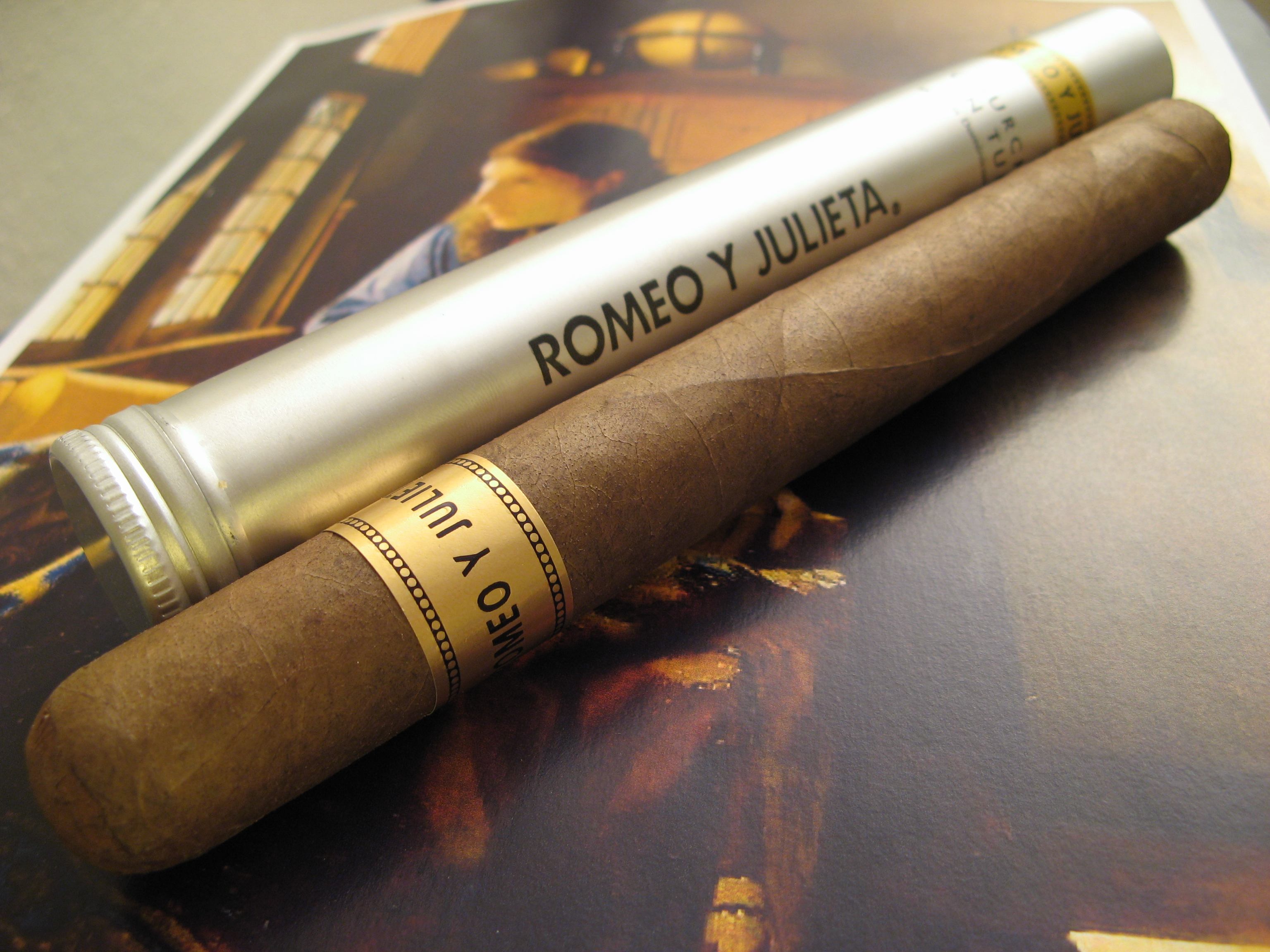 A Dominican Romeo y Julieta Churchill en Tubo 7.5 x 50 cigar Photographed and uploaded by user:Geographer.